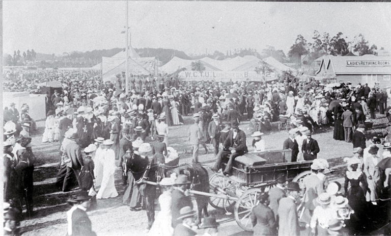 A view of the crowd attending the Canterbury Agricultural and Pastoral Association's Metropolitan Show, held at the Addington Showgrounds.